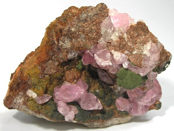 Kolwezite, Calcite (Var.: Cobaltoan Calcite) Locality: Kolwezi, Western area, Katanga Copper Crescent, Katanga (Shaba), Democratic Republic of Congo (Zaïre) (Locality at ) Size: 6.6 x 5.4 x 4.9 cm. Here is a rare and beautiful association specimen from the Congo, featuring a pocket containing large (to one cm), gemmy crystals of lustrous pink cobaltoan calcite, in association with green botryoidal kolwezite (type locality, obviously) - chemical formula (Cu,Co)2(CO3)(OH)2.